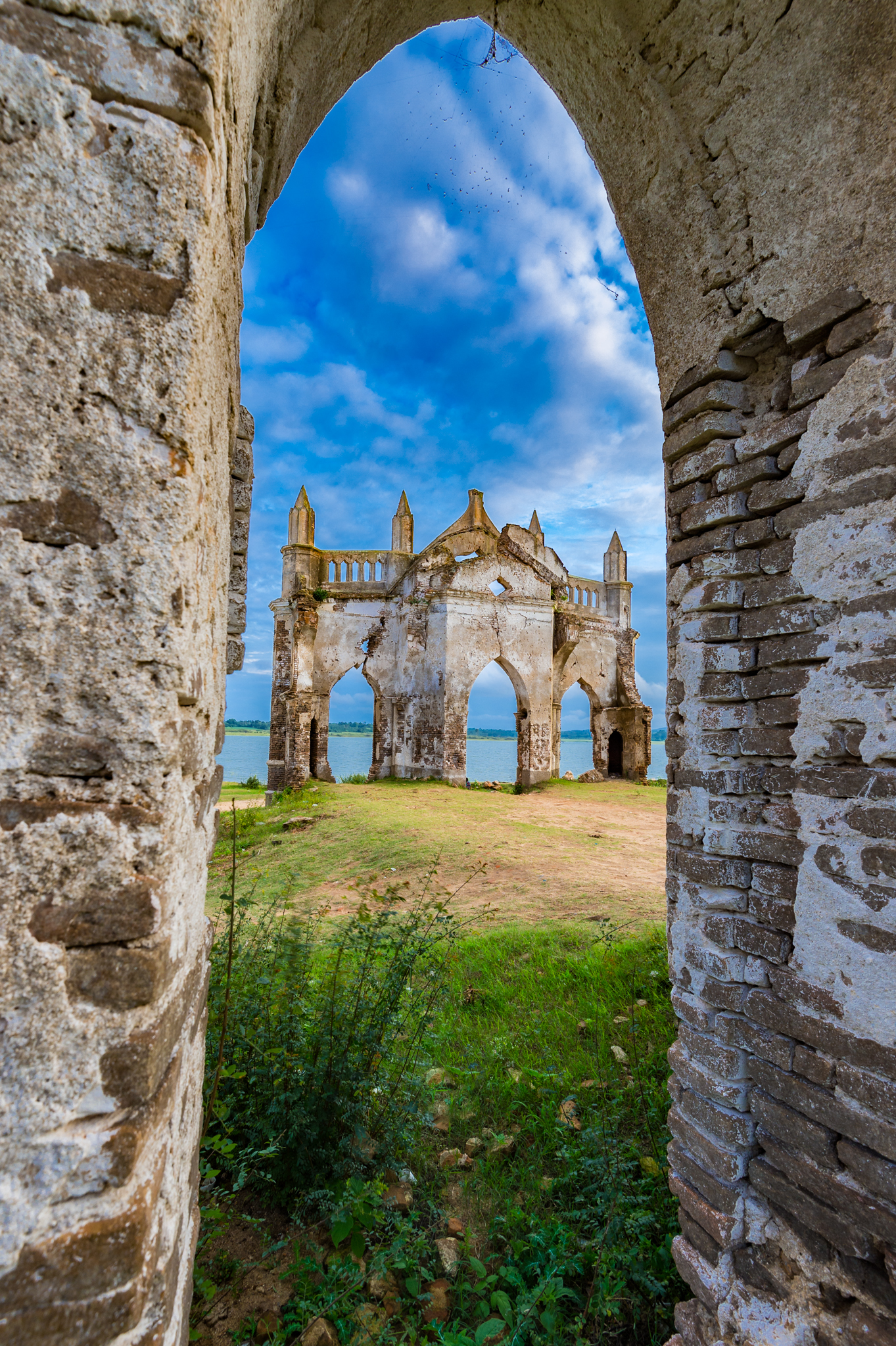 Shettihalli Church is located 22 km from Shettihalli, in Karnataka. Built in the 1860s by the French missionaries, the church is a magnificent structure of Gothic Architecture. After the construction of the Hemavati Dam and Reservoir in 1960 the church was abandoned.